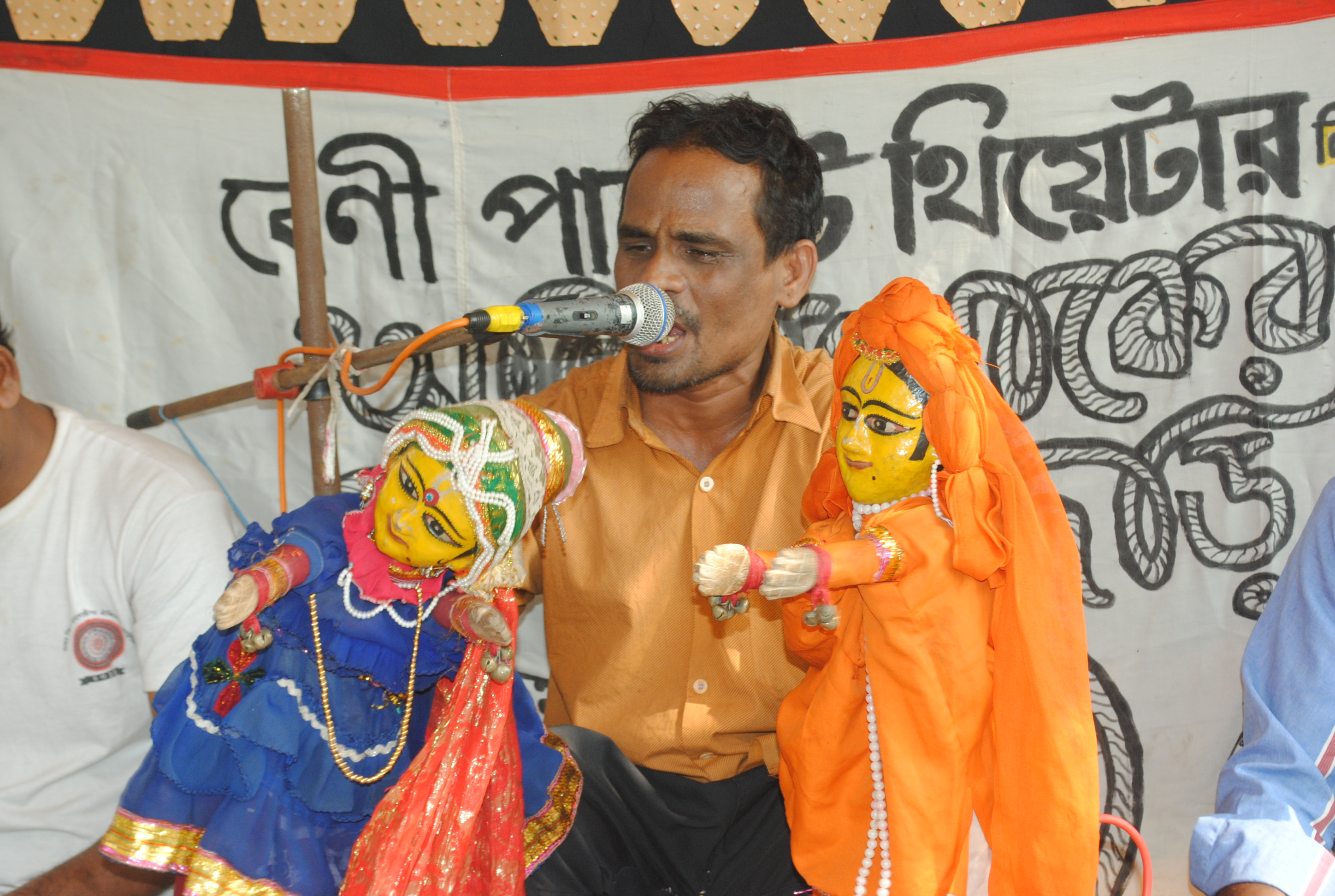 This photo has been taken in the country: India